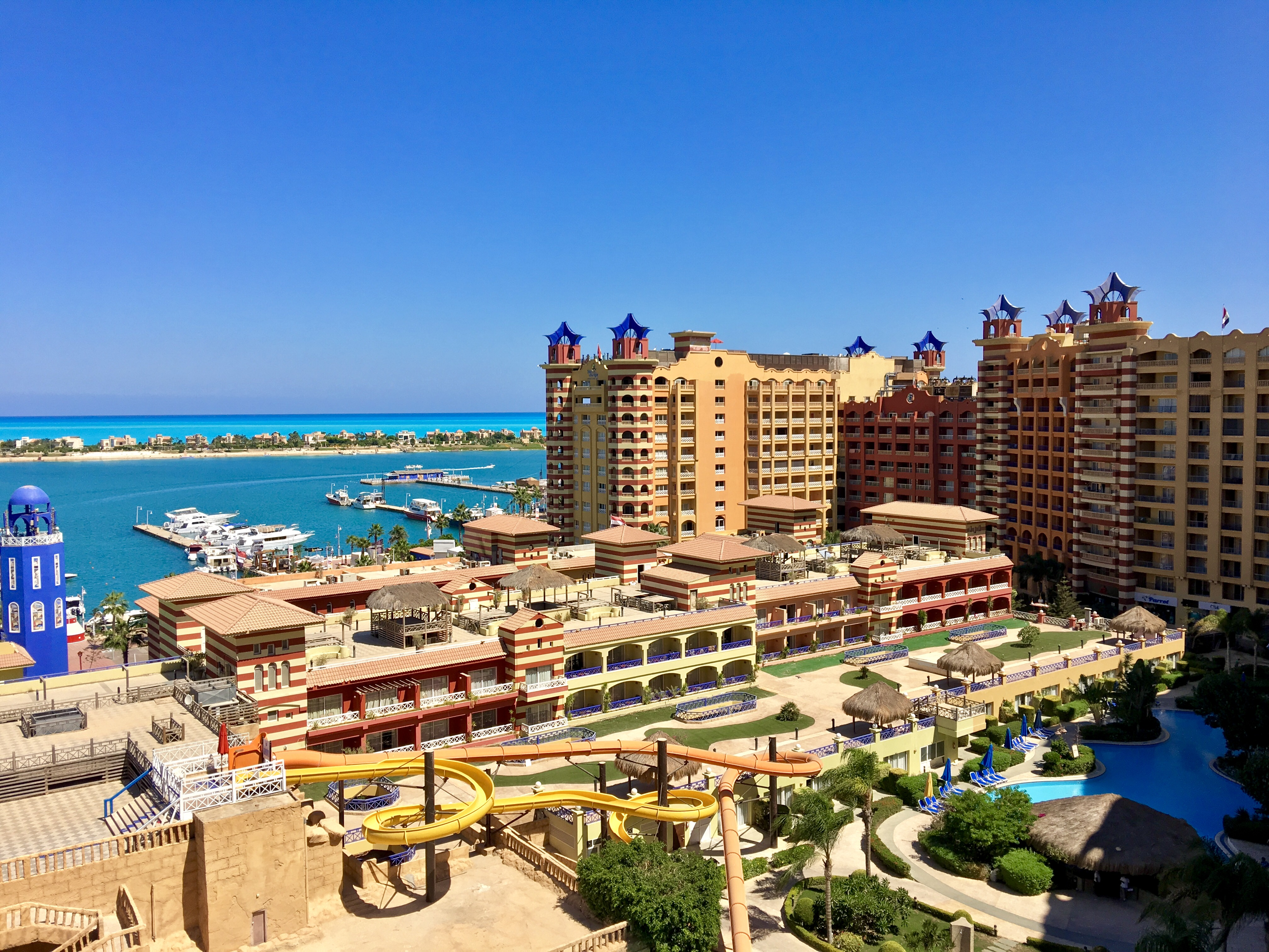 A picturesque capture of The Mediterranean sea